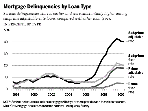 Mortgage delinquencies in the US escalated sharply in 2007, 2008, peaking towards the end of 2009.Subprime mortgages had more delinquencies than prime, and adjustable rate more than fixed.